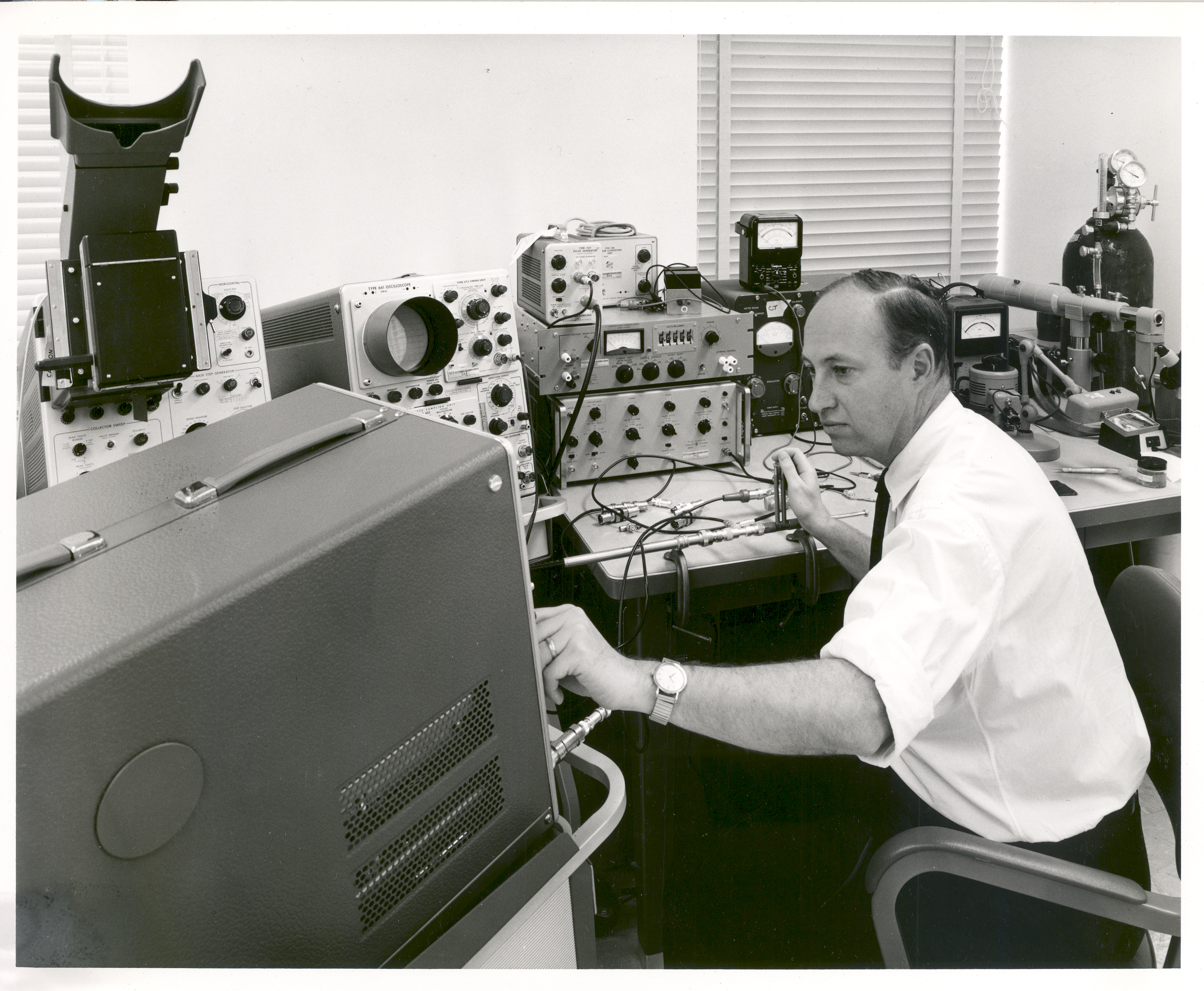 W. Deter Straub, a scientist at the NASA Electronics Research Center's (ERC) Component Technology Laboratory, conducted this experiment with the "Gunn Effect." The Gunn Effect is the production of microwave oscillations when a constant voltage inexcess of a critical level is applied to opposite faces of a semiconductor. The Center realized the promising advances in microwave research, indicated by "hot electron" experiments atthe ERC with the use of bulk gallium arsenide semiconductormaterial. The Center's scientists generated higher frequency microwaves which were important for future NASA missions in spacecraft transmitters, because they were expected to improvethe efficiency of microwave signal transmission in space. ERC opened in September 1964 and has the particular distinction ofbeing the only NASA Center to close, shutting down in June 1970. Its mission was to develop new electronics and training new graduates as well as NASA employees. The ERC actually grew whileNASA eliminated major programs and cut staff in other areas. Between 1967 and 1970, NASA cut permanent civil service workersat all Centers with one exception, the ERC, whose personnel grewannually until its closure. For more information about the ERC, please